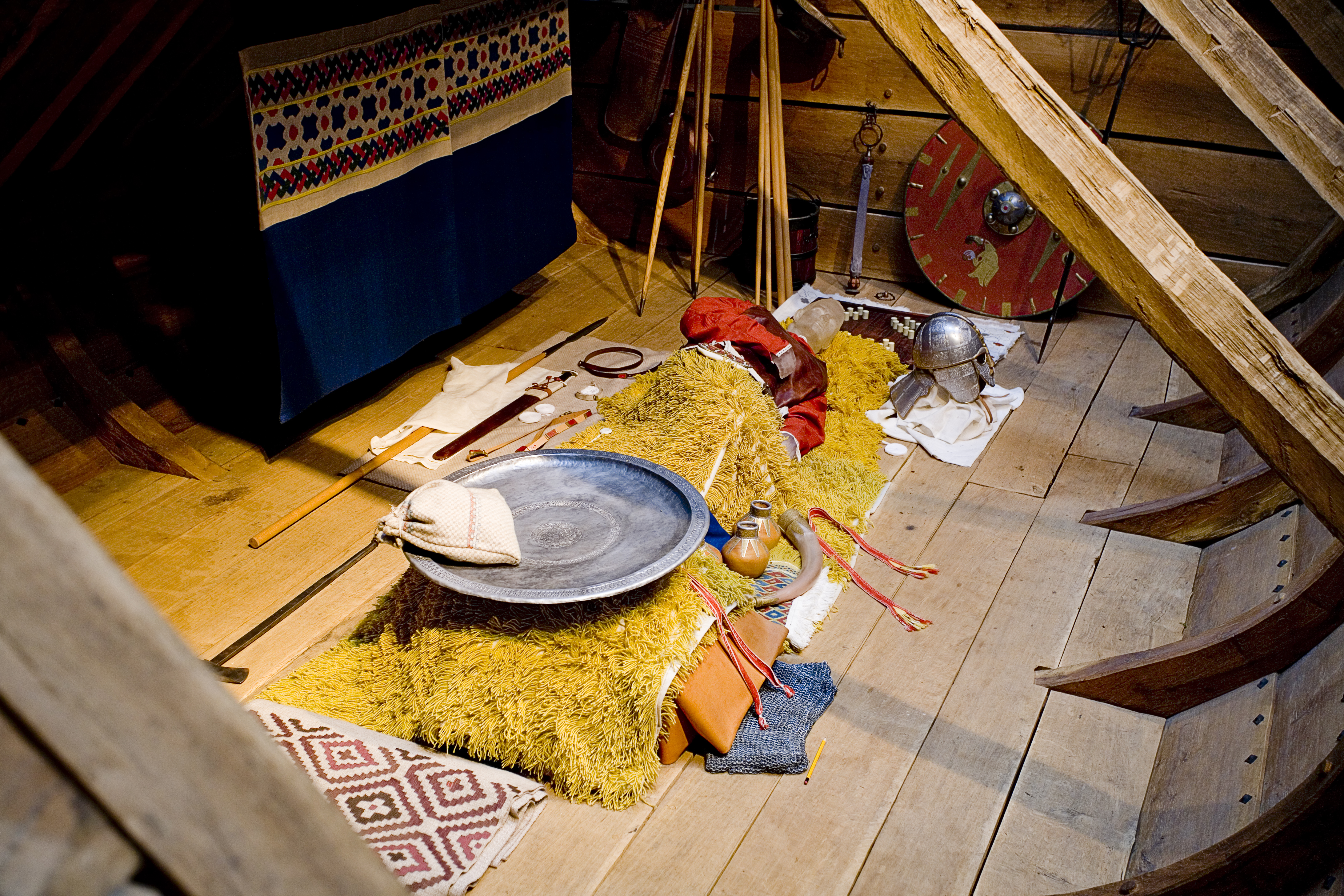 Burial chamber of the Sutton Hoo ship-burial 1, England. Reconstruction shown in the Sutton Hoo Exhibition Hall.